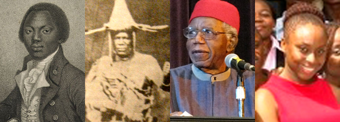 Montage of Igbo people which include: Olaudah Equiano, aka Gustavus Vassa, Jaja of Opobo (1821–1891)Chinua Achebe and Chimamanda Ngozi Adichie